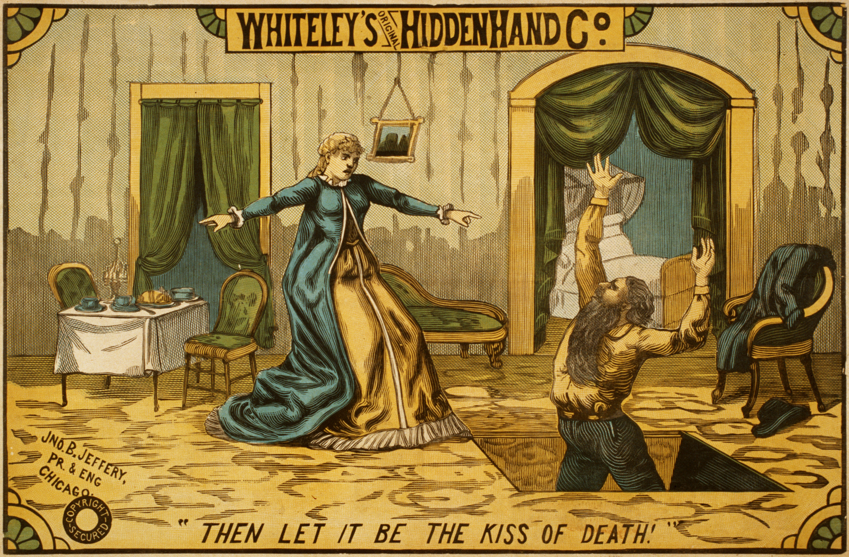 Whiteley's Original Hidden Hand Co. "Then let it be the kiss of death!" Woodcut for performance troupe.